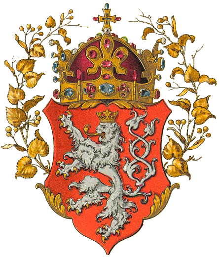 Artistic tribute of (unofficial) coat of arms of the Kingdom of Bohemia under austro-hungarian rule by Hugo Gerhard Ströhl decorated with non-typical golden wreath.